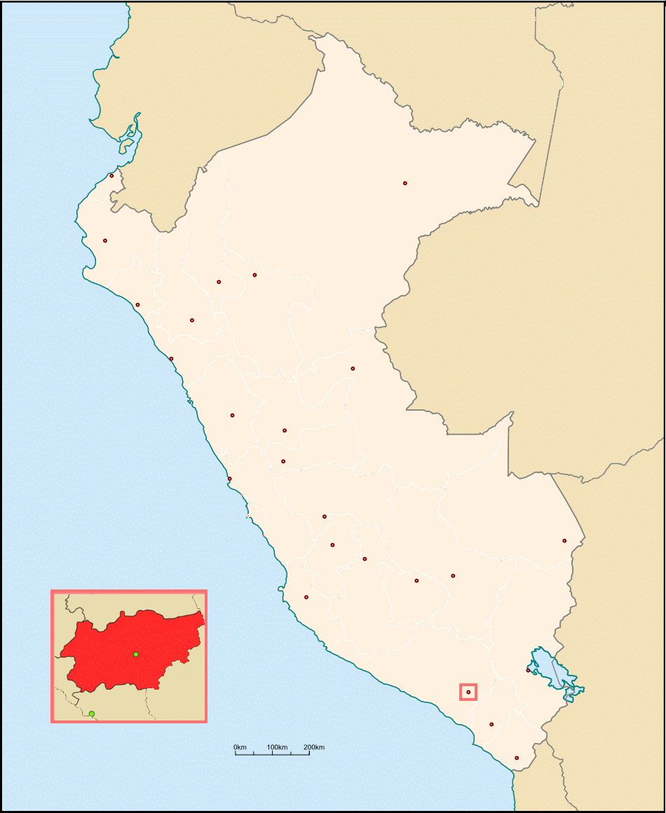 arequipa